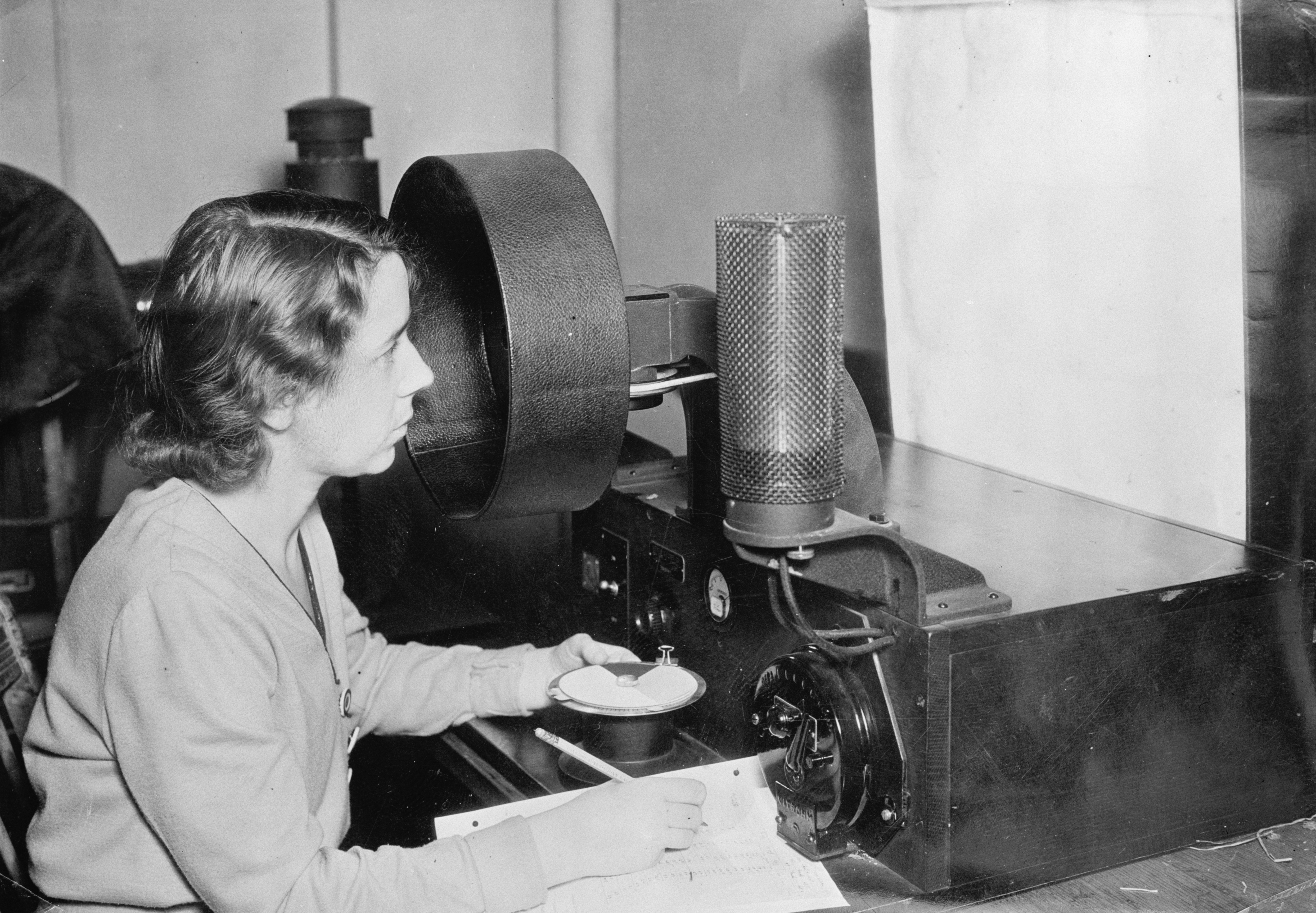 Title: Color expert for Uncle Sam. Washington, D.C., June 20. When it was discovered that color plays an important [role] in marketing of cotton, Miss Dorothy Nickerson, Color Technologist of the U.S. Department of Agriculture, developed a method for measuring the color of raw cotton mechanically. The equipment comprises a comparator, a motor on which to spin standard color discs, the color discs, and standard artificial daylight. When looking through the comparator, the operator sees a circular field, the upper half made up of the color of the cotton and the lower half made up of the disc colors, 6/20/38 Abstract/medium: 1 negative : glass ; 4 x 5 in. or smaller